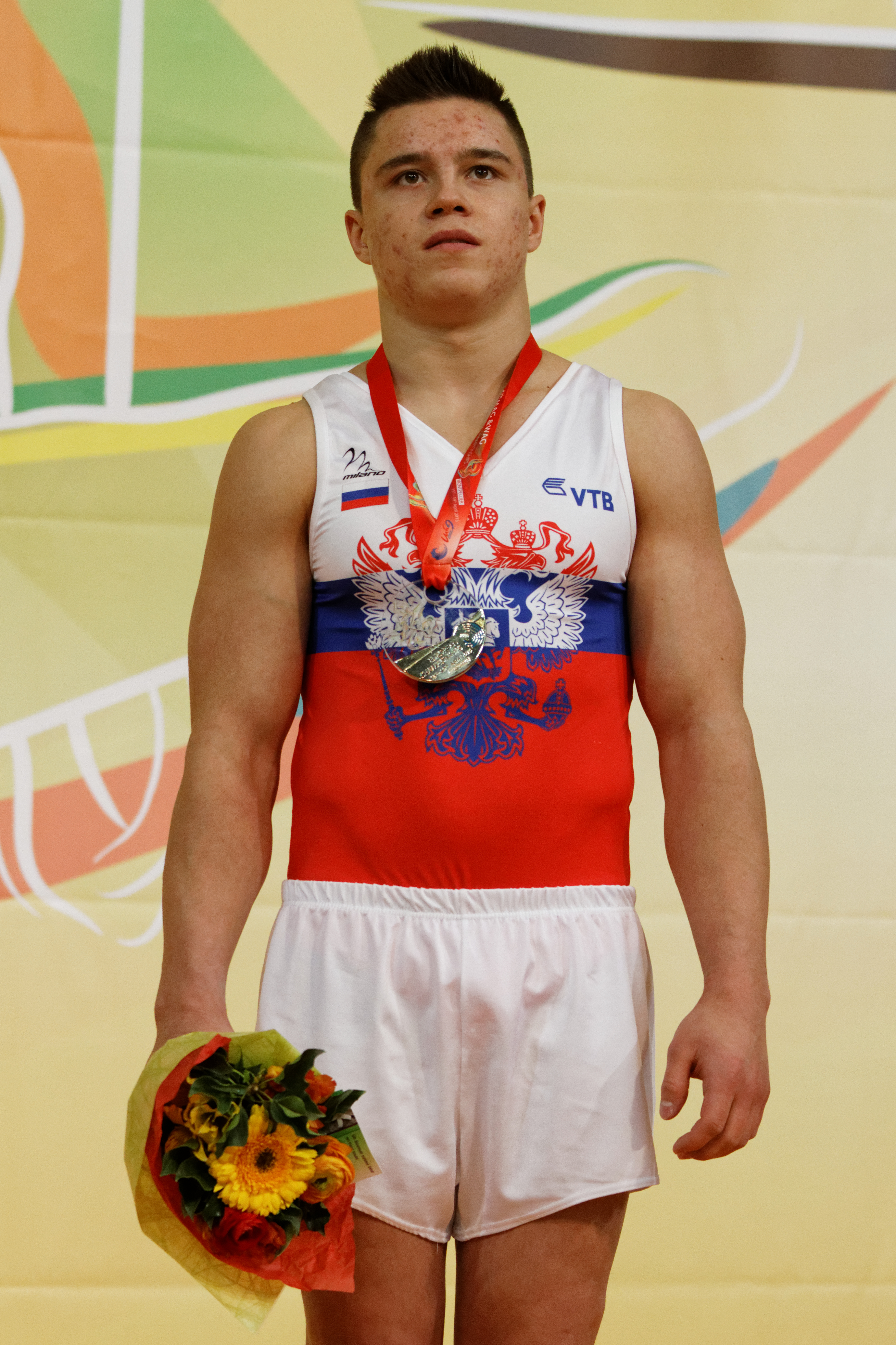 2015 European Artistic Gymnastics Championships.